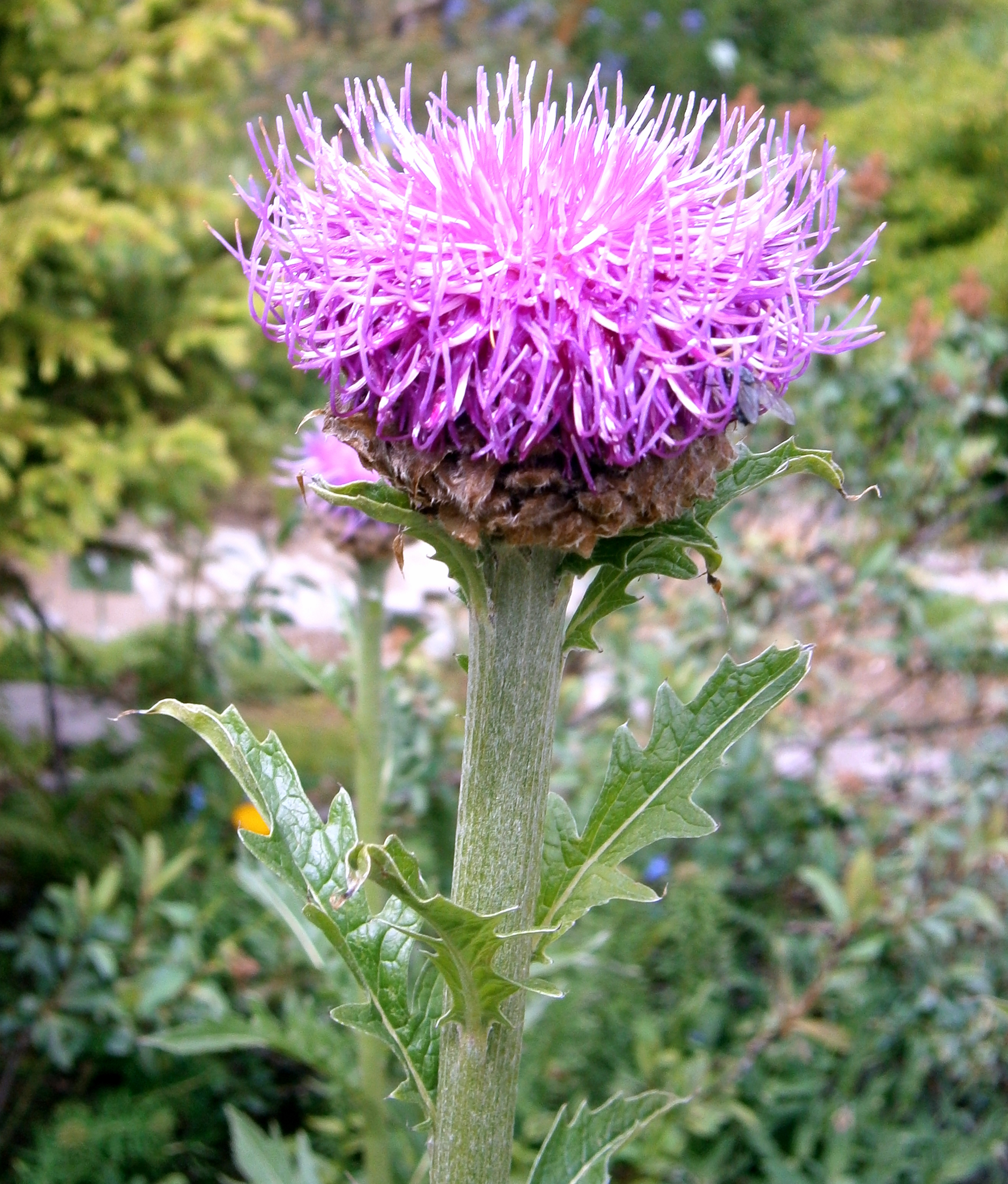 Rhaponticum carthamoides in the Jardin Botanique Alpin du Lautaret (Hautes-Alpes, France).